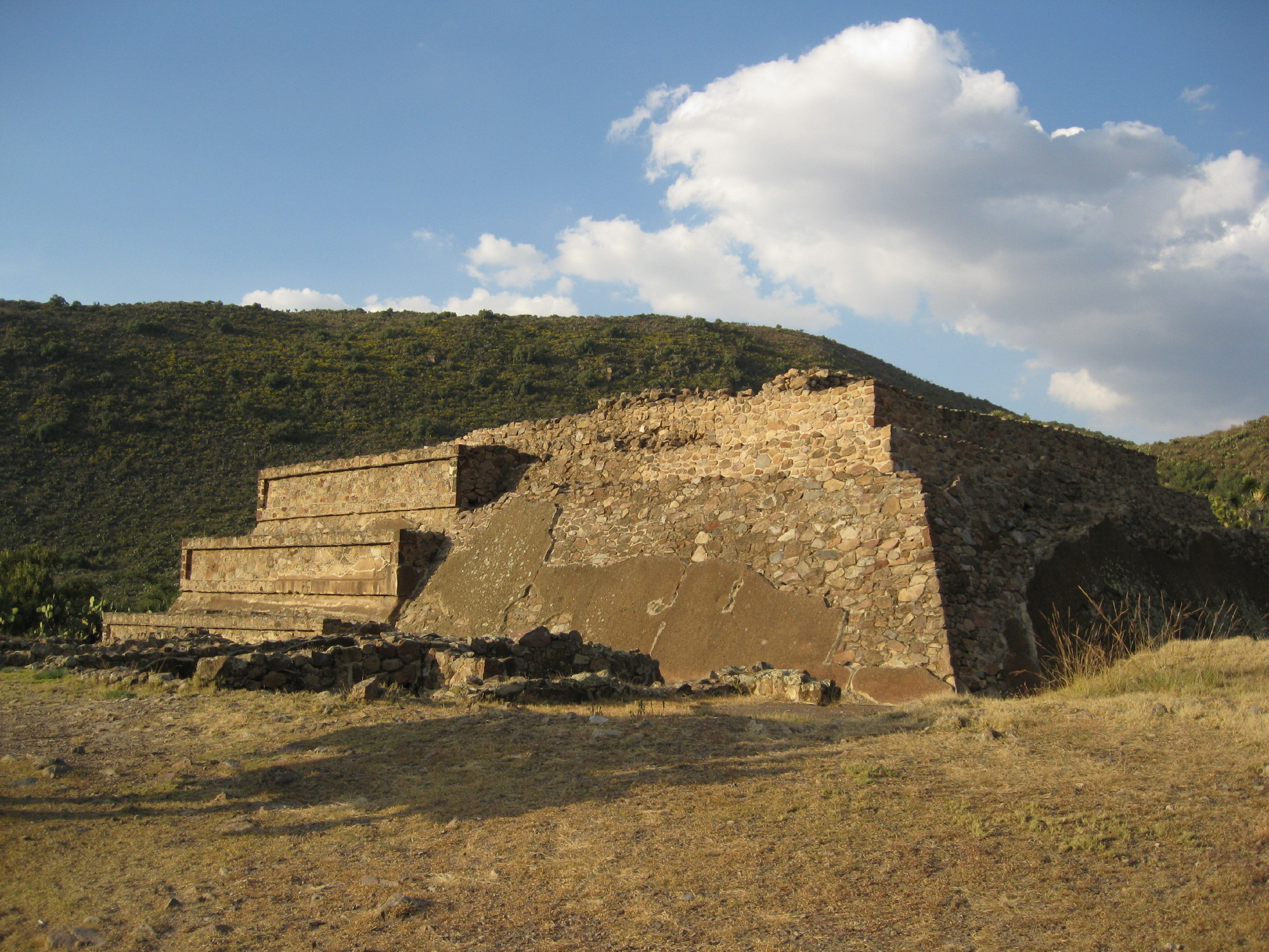 piramide of Xihuingo